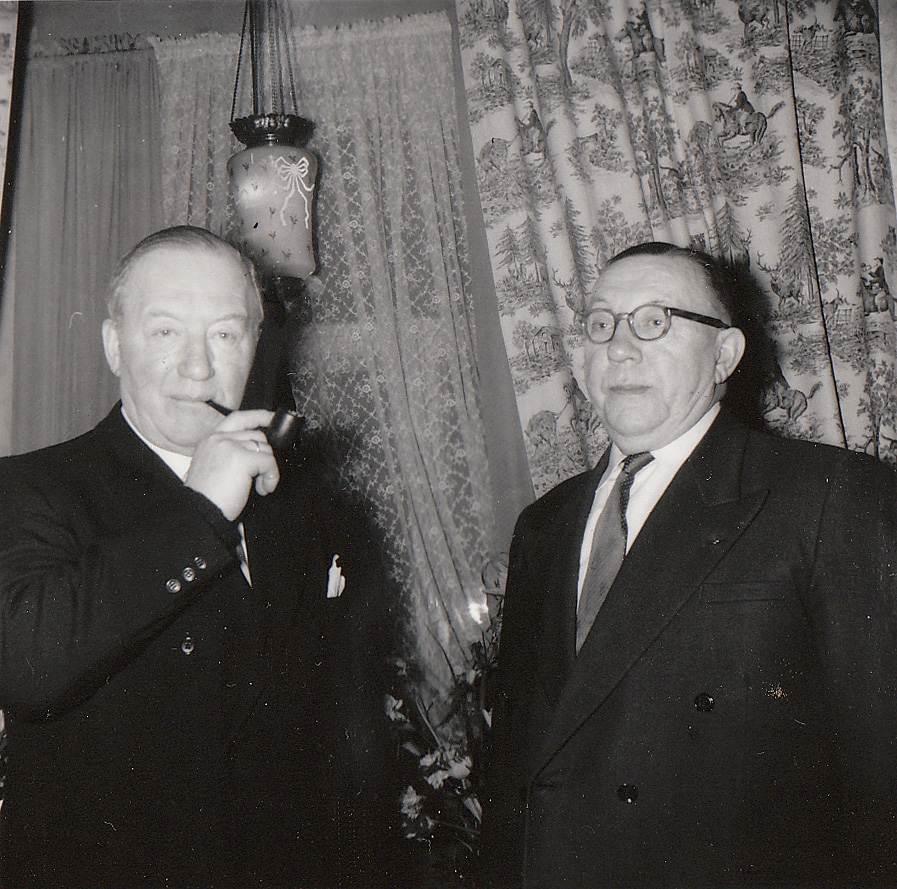 Owner of the famous Norwegian church organ factory "Jørgensens orgelfabrikk" Josef Hilmar Jørgensen (left) and elder brother and organ pipe maker August Nilsen Jørgensen pictured in 1960 at August's 70 years birthday.